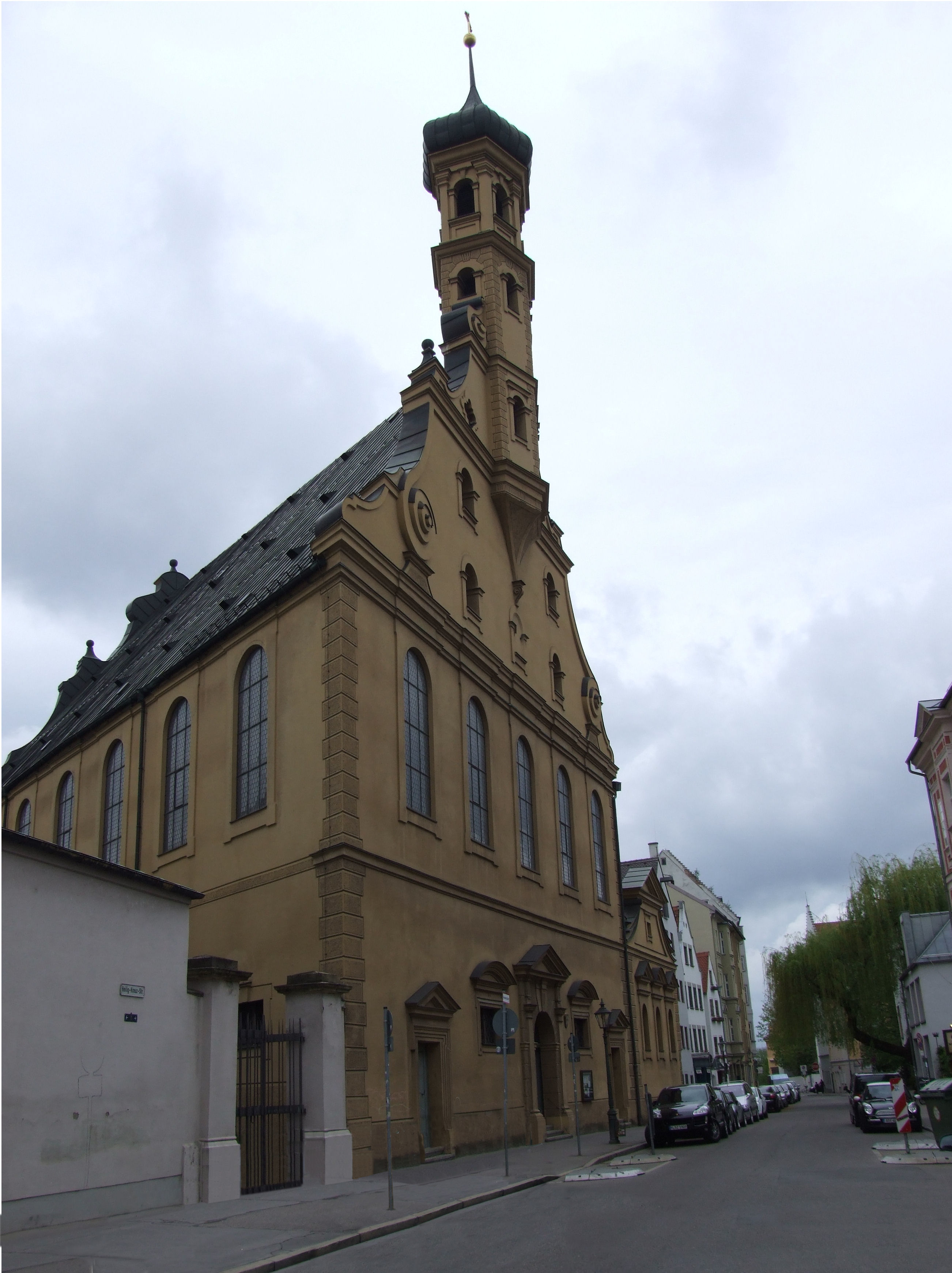 Augsburg's Evangelical Church of the Holy Cross is in Heilig-Kreuz-Straße. The present building dates from the early 1650s. It replaced an earier chapel on the same site.